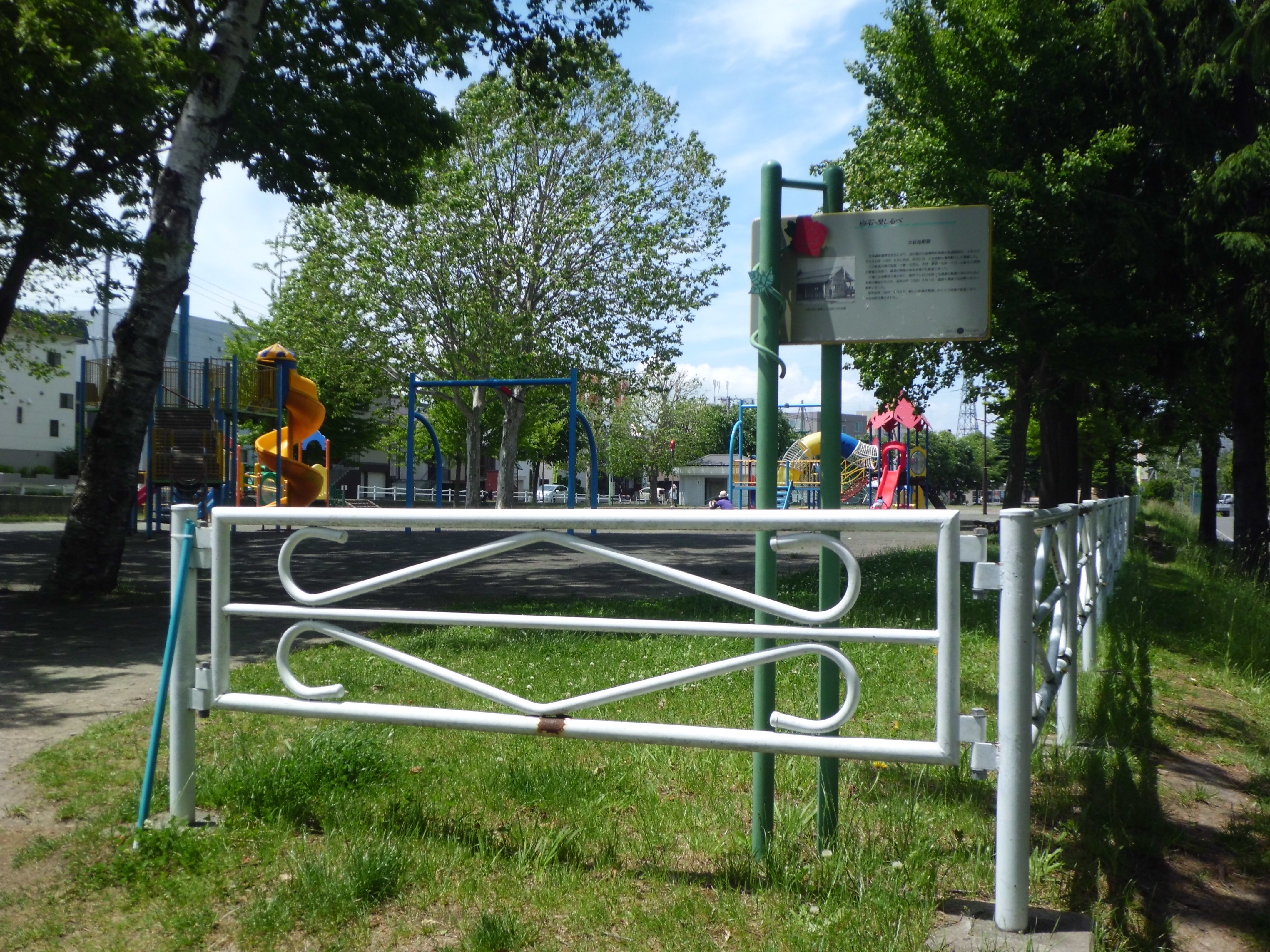 Remains of JNR Oyachi Station